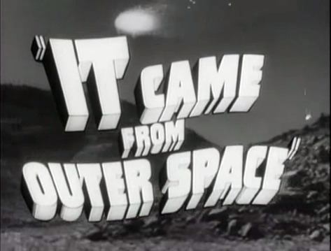 Title screen of It Came from Outer Space trailer (1953)